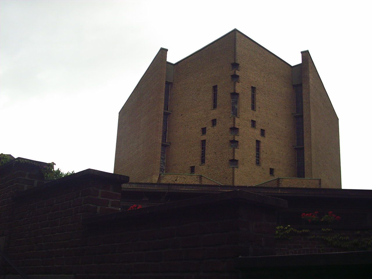 Koenigsmuenster Abbey, Meschede, Germany check usage